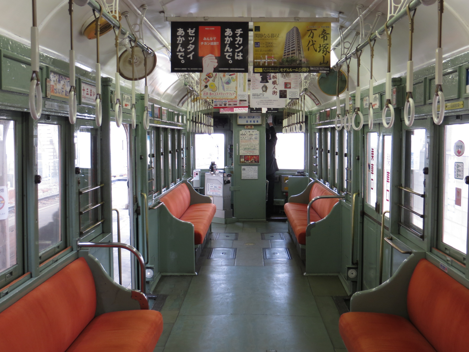 Interior from Hankai Tramway #162